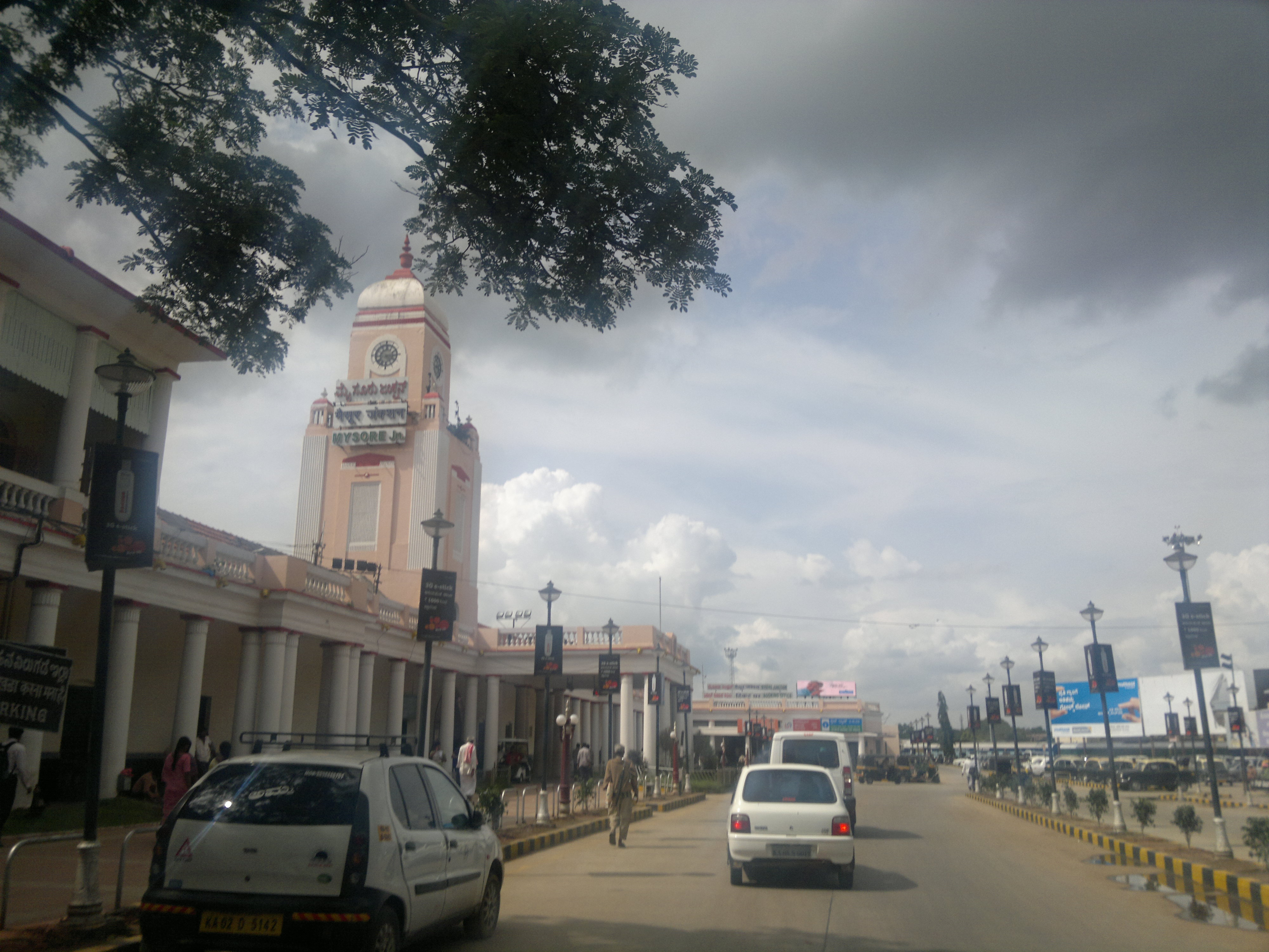 Mysore Railway Station snap